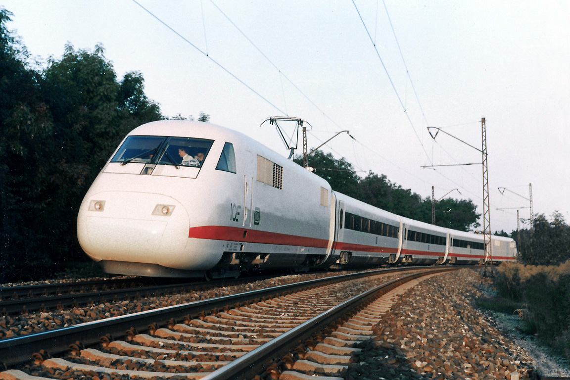 The Intercity-Express prototype InterCityExperimental on the freight line between Karlsfeld (near Munich) and Olching. This was the first voyage of the full train, one day before its official presentation. Car order: 410 001, 810 002, 810 001, 810 003, 410 002